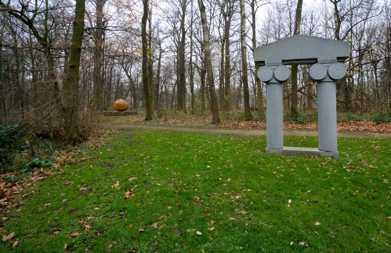 Sculptures in Park Middelheim in Belgium